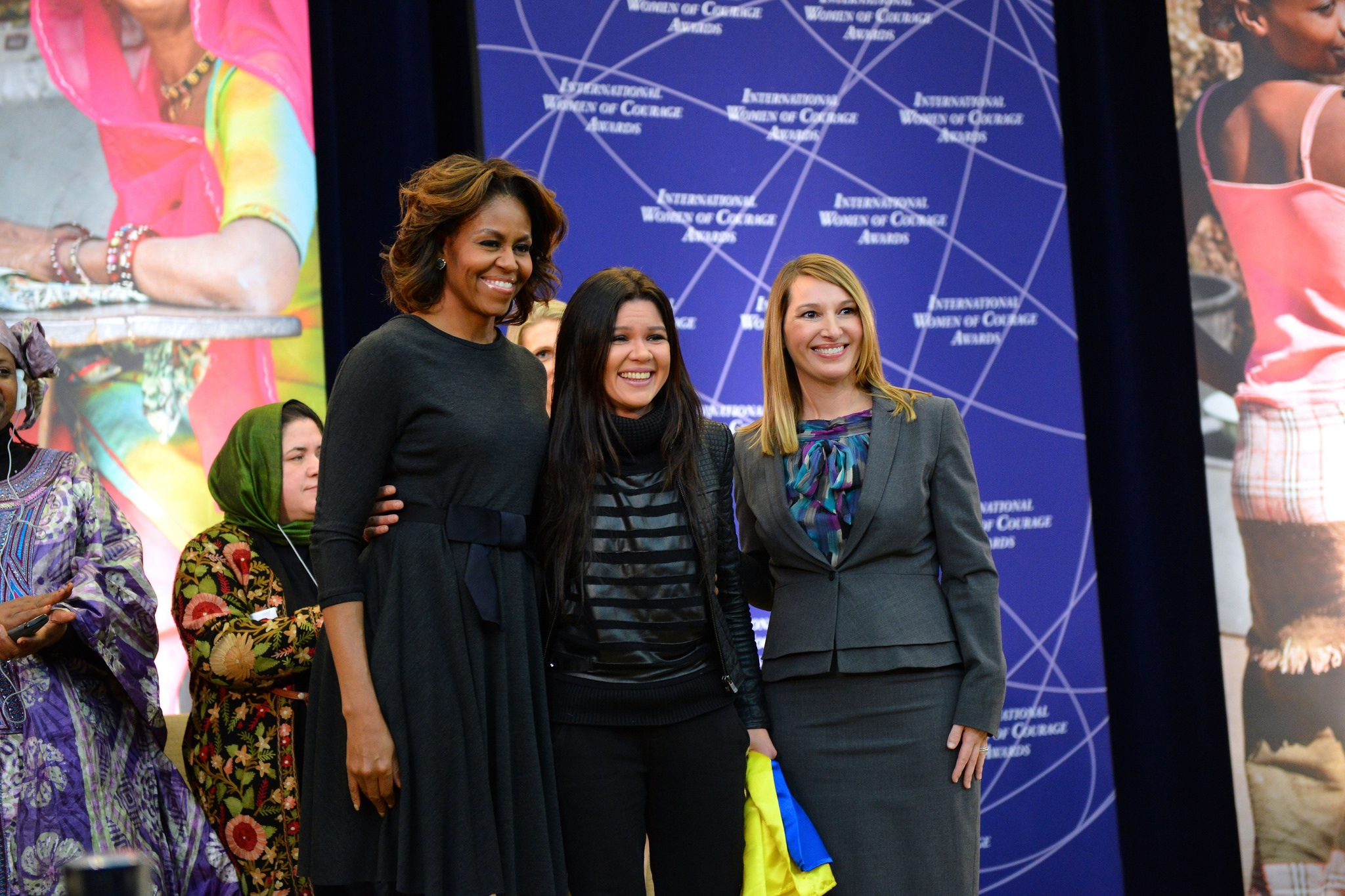 First Lady Michelle Obama and Deputy Secretary Heather Higginbottom pose for a photo with 2014 Secretary of State’s International Women of Courage Award Winner Ruslana Lyzhychko, a EuroMaidan volunteer and People’s Artist of Ukraine, at the U.S. Department of State in Washington, D.C., on March 4, 2014. [State Department photo/ Public Domain] The photo owner has disabled commenting.